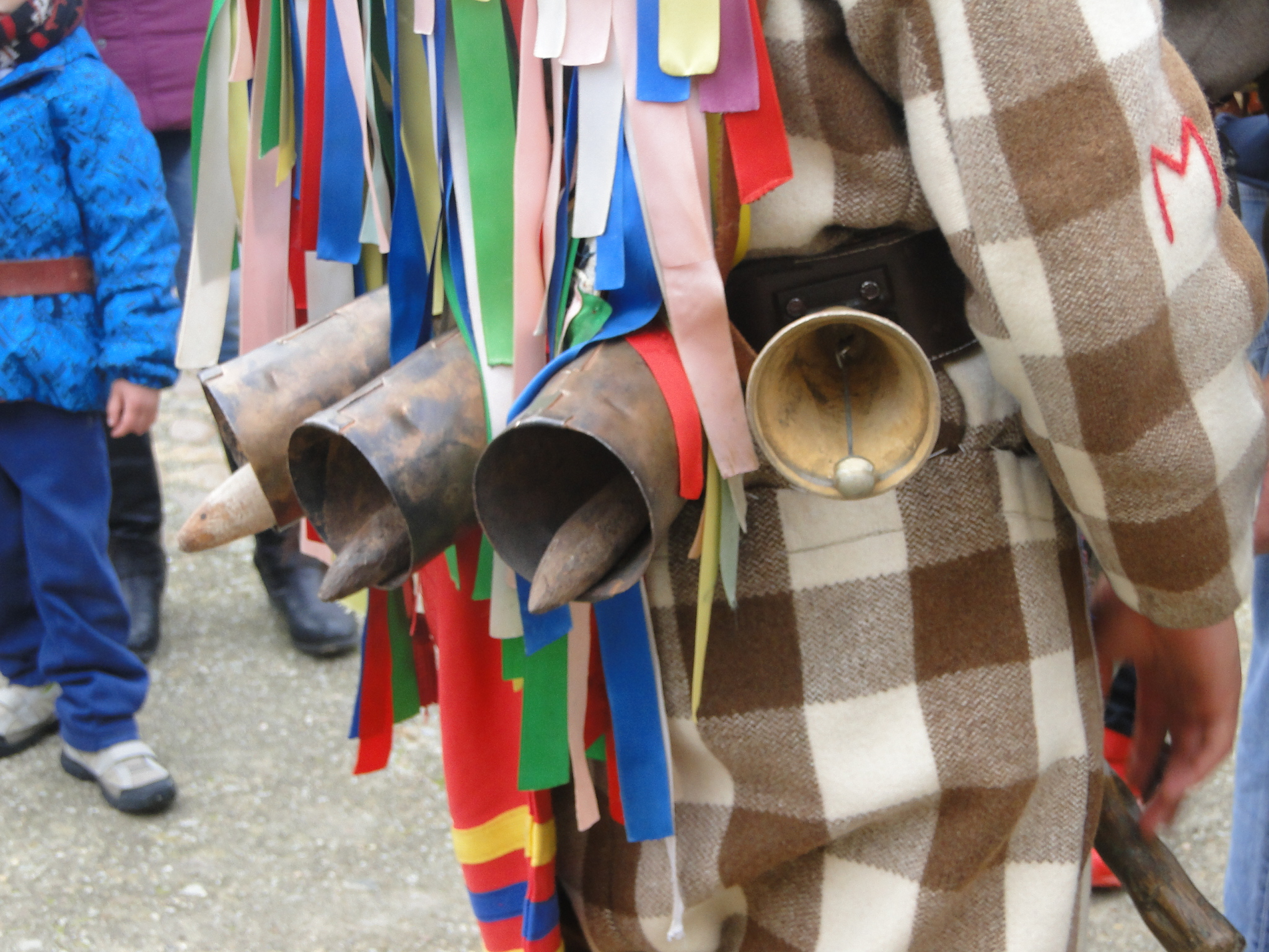 El Zangarrón is a traditional folk festival in the town of Sanzoles, Zamora, Spain. It is celebrated on December 26. The Zangarrón is a traditional figure that according to legend defended the image of San Esteban when the locals wanted to stone him for not doing a rain miracle. Currently, the conscripts dance in front of the image of San Esteban while the Zangarrón runs between the rows of dancers to prevent the spectators from interrupting them; he also runs behind people who show him money to take it away. This photo has been taken in the country: Spain